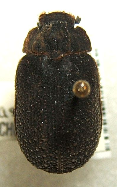 Omorgus amictus adult taken by Shawn Hanrahan at the Texas A&M University Insect Collection in College Station, Texas. Cropped from Omorgus amictus sjh.jpg.